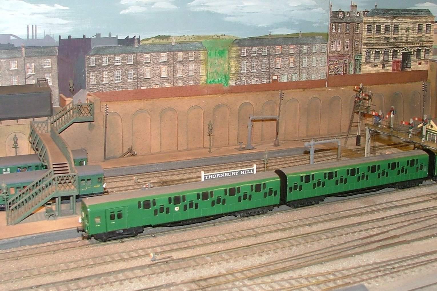 Model of SR Class 4DD